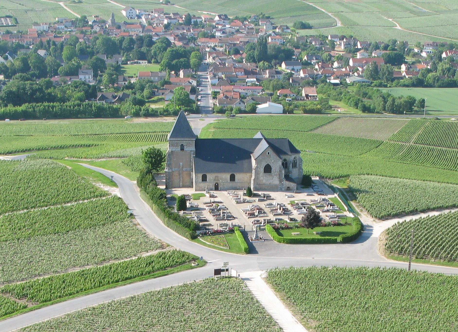 Église Saint-Martin de Chavot, Marne, France. The village in the background is Moussy. .